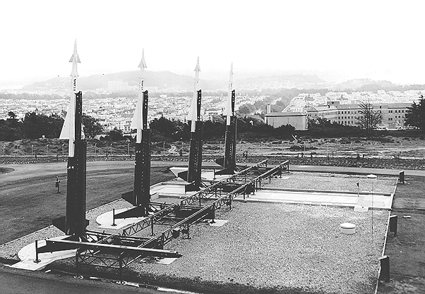 Nike Ajax site. Launcher section of Battery B, 740th AAA Missile Bn Ft. Scott, California (USA). San Francisco skyline in background.